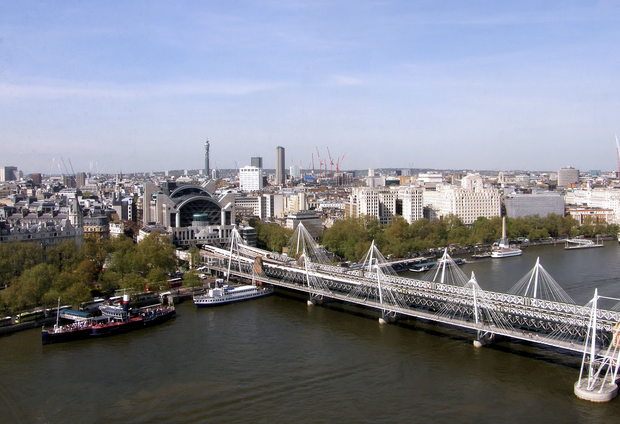 Charing Cross railway station and Hungerford Bridge, London, England. (photographed from the London Eye).